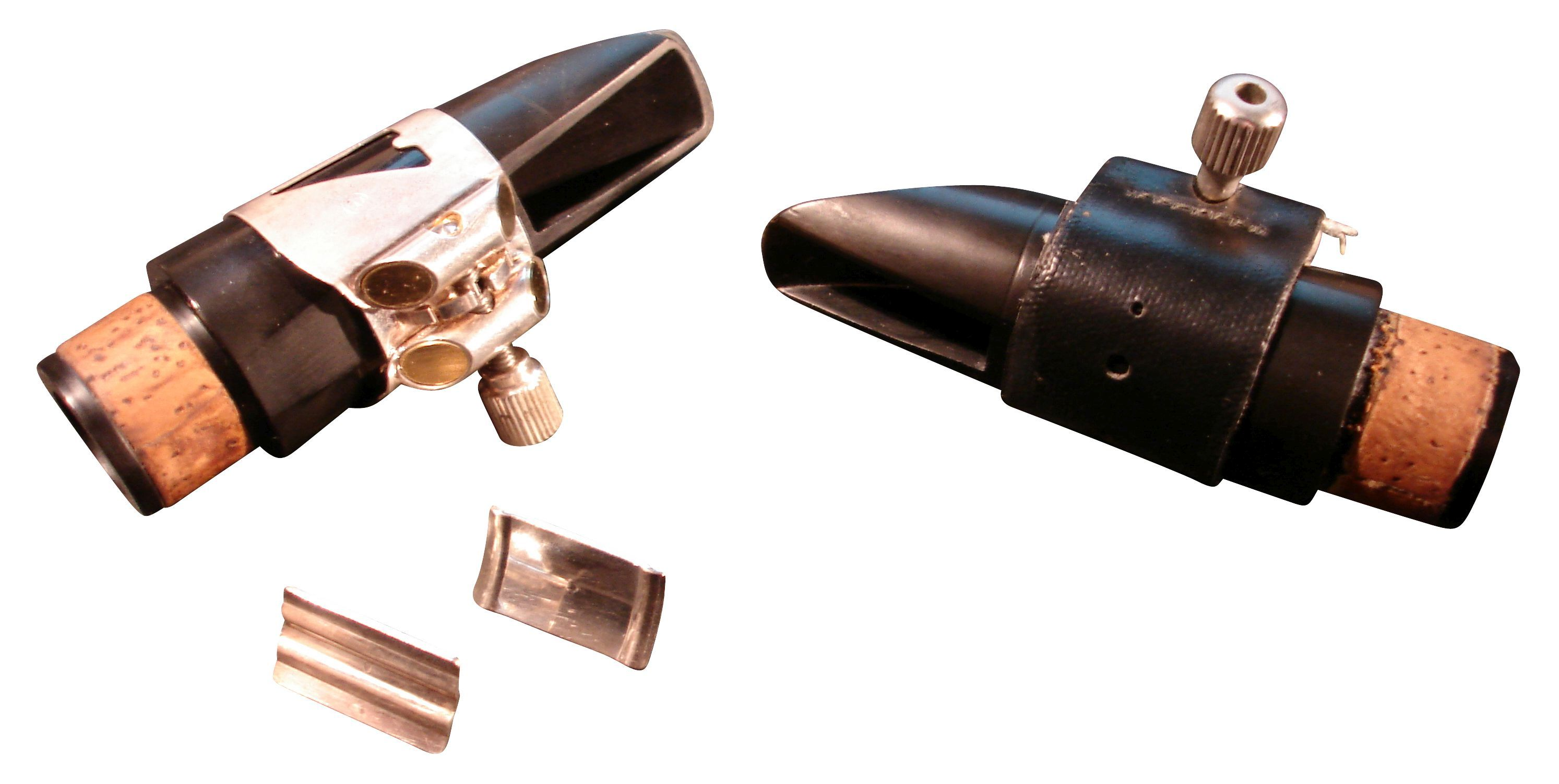 Two Selmer C85 120 mouthpieces with ligatures. On the left, a (well-used) silver Vandoren Optimum ligature, and on the right, a (very well-used) leather Rovner wrap-around ligature.